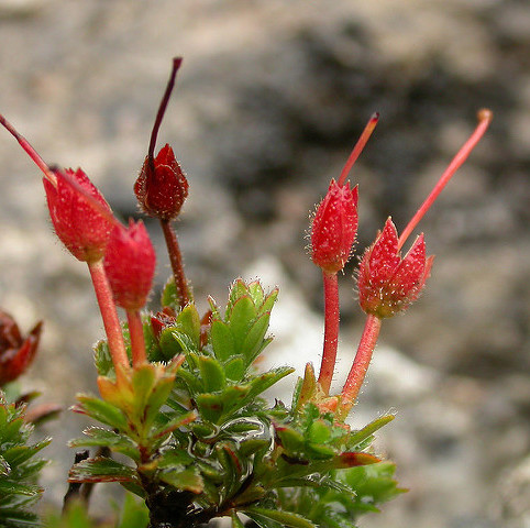 Fruits of Rhodothamnus chamaecistus, Triglav, Slovenia